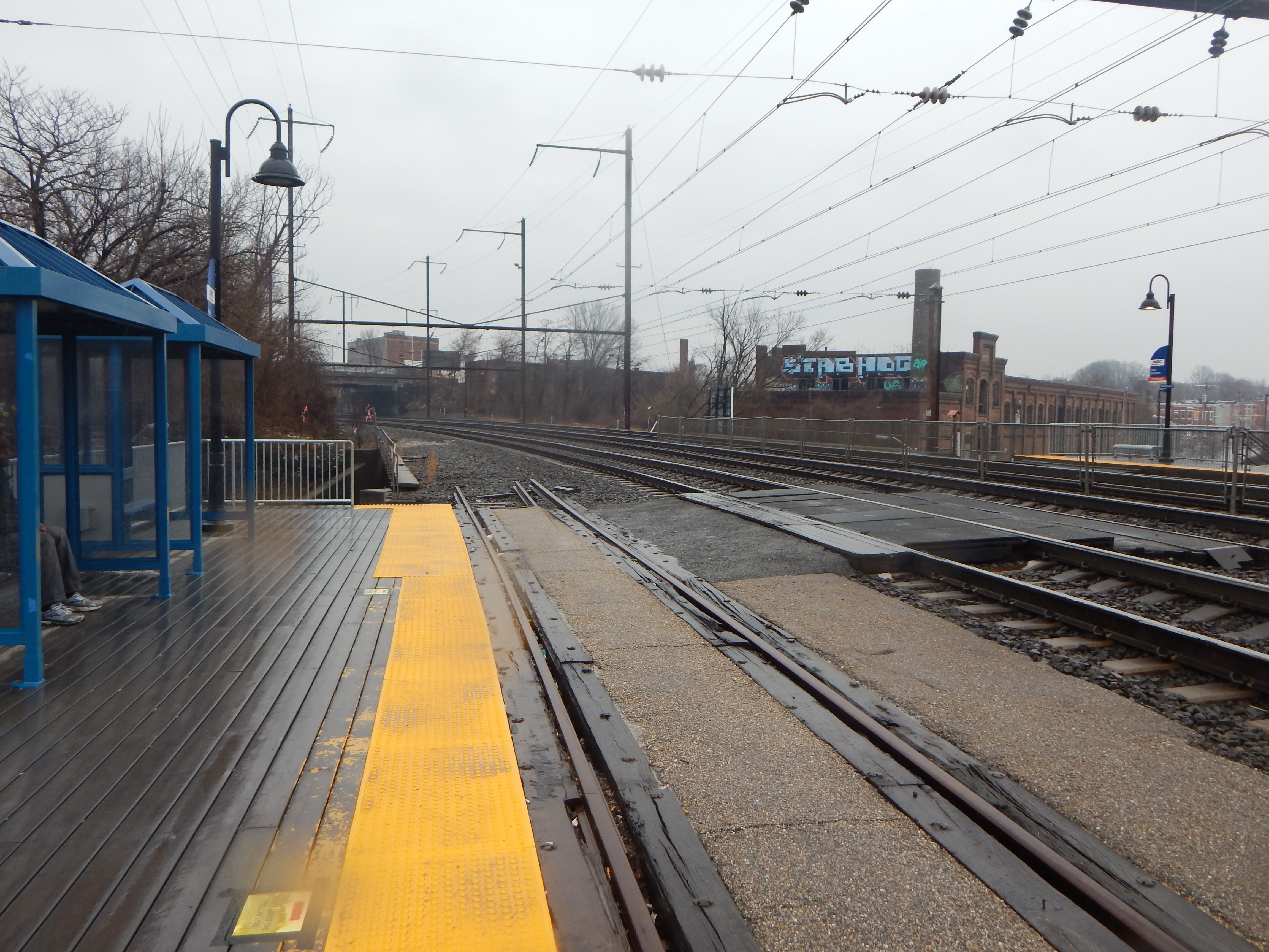 The West Baltimore station in West Baltimore, Maryland. Taken from the southbound platform looking north.